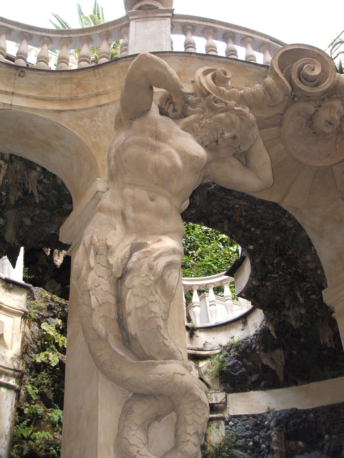 The Palazzo Podestà garden courtyard, with statue of Phaeton— in Genoa, northern Italy. Rococo design of Nymphaea by Domenico Parodi.